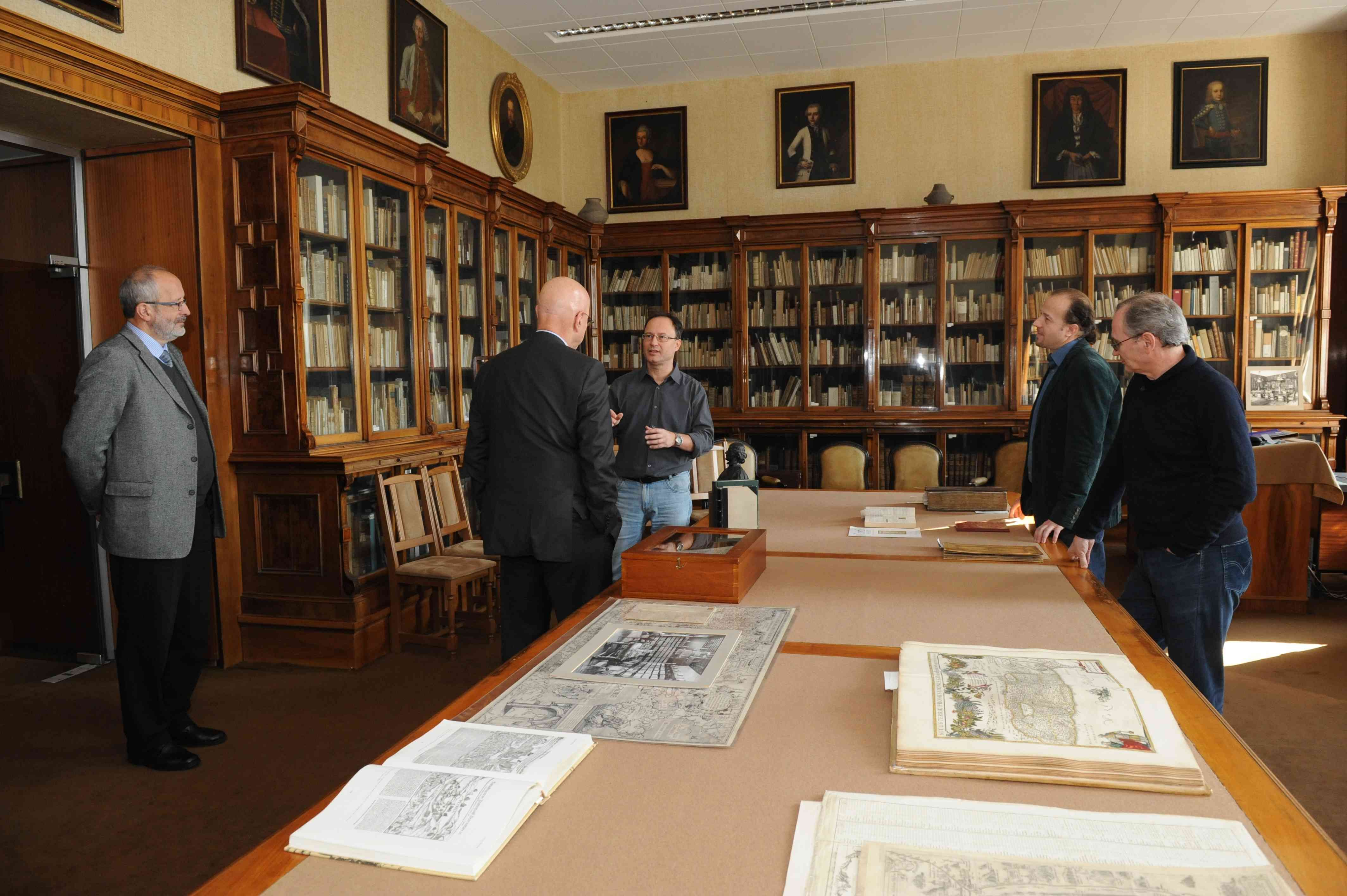 On November 4, 2015, Ilan Mor, Extraordinary and Plenipotentiary Ambassador of the State of Israel paid a visit to National Széchényi Library where he discussed the possibilities of cultural cooperation with Director-General of NSZL László Tüske. After the meeting, the Ambassador had a look at of some of the special pieces of our collections.